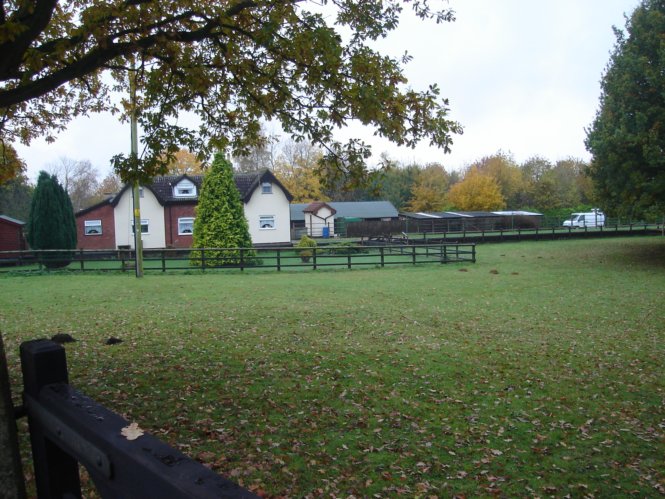 Picture of the former Attlebridge railway station, Norfolk